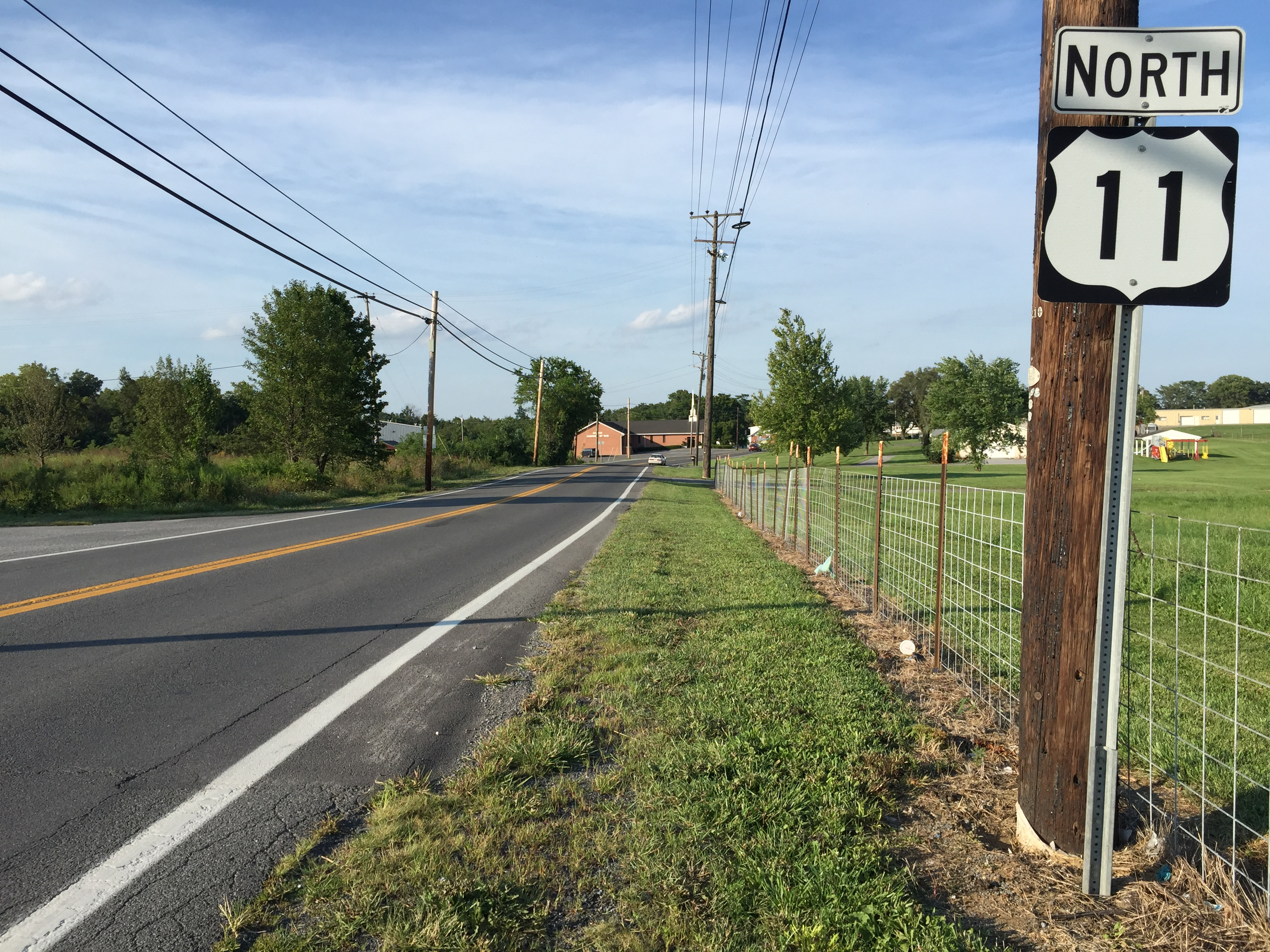 View north along U.S. Route 11 (Winchester Avenue) at Sader Drive in Inwood, Berkeley County, West Virginia